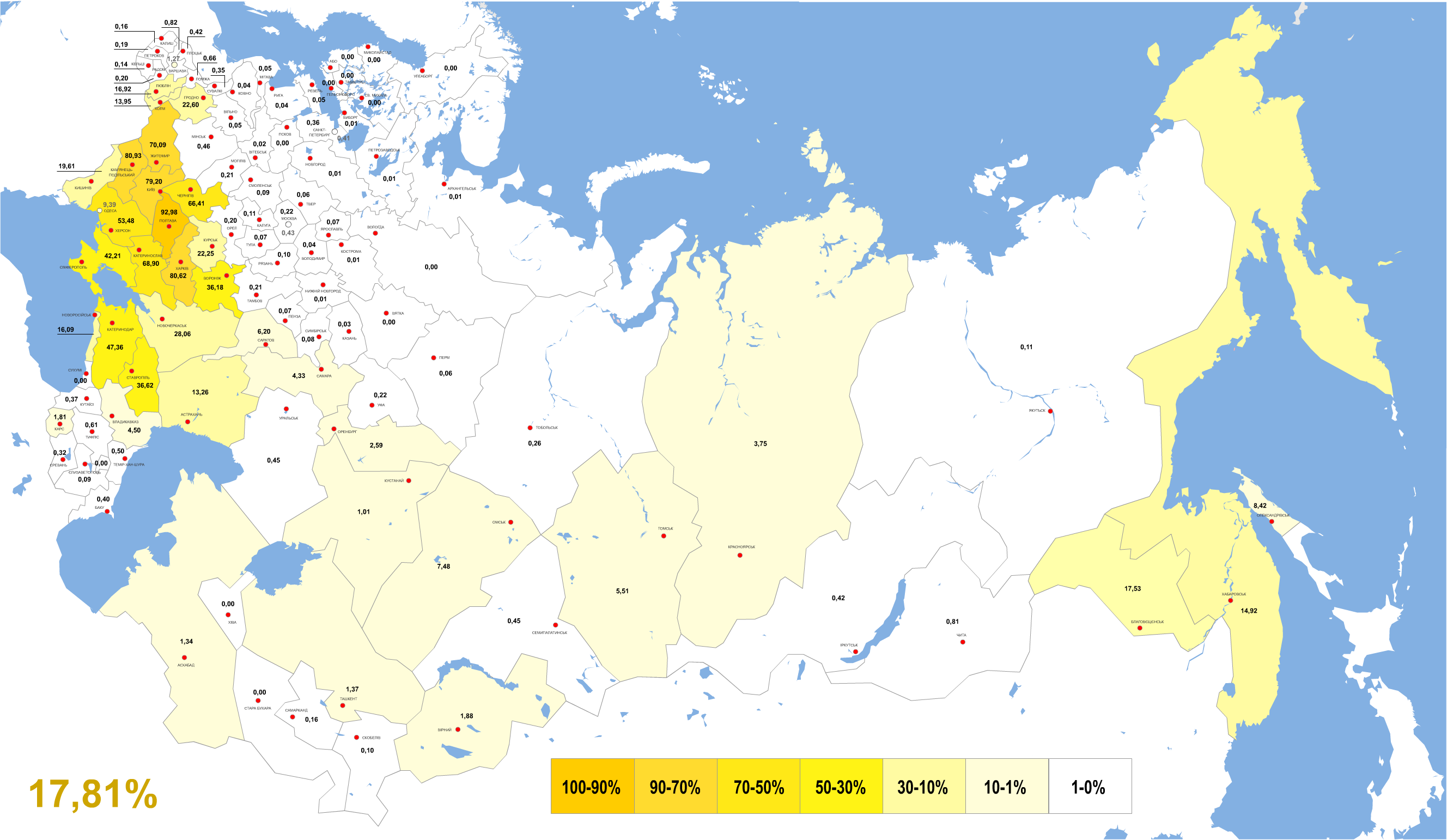 Ukrainian (Little Russian) language in the Russian Empire according to census 1897 (17,81% of all population).